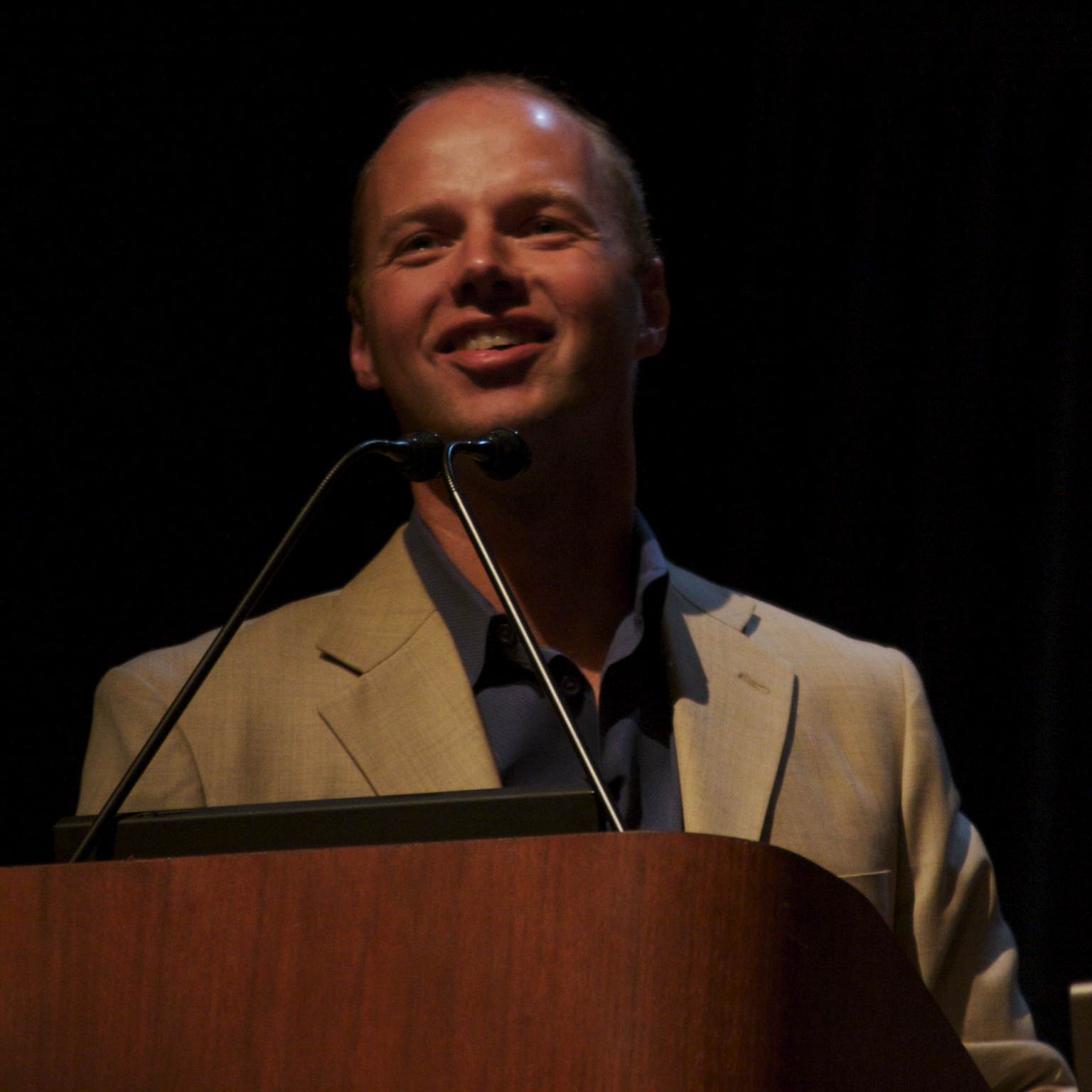 Sebastian Thrun, Associate Professor of Computer Science at Stanford University.